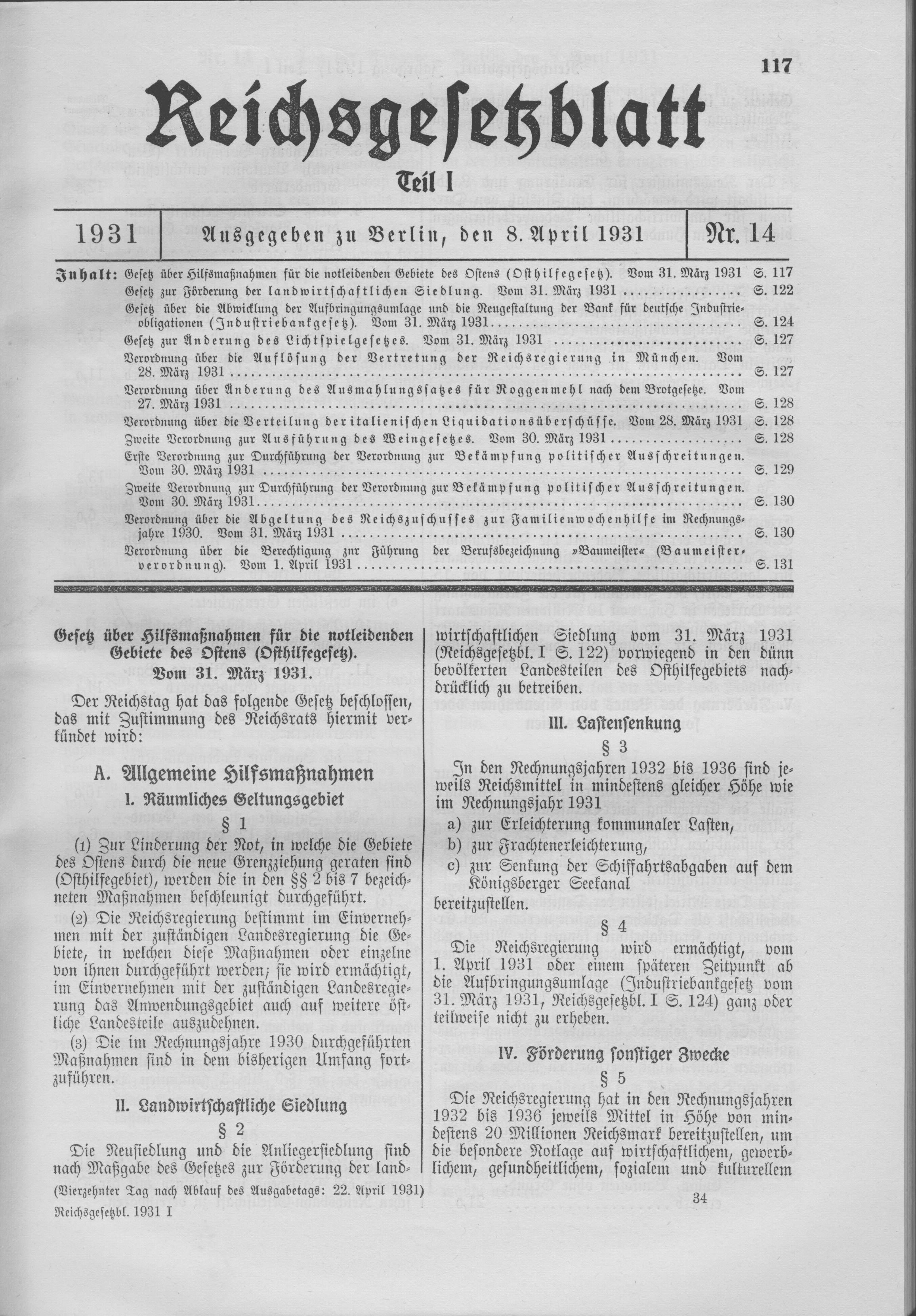 Scan from the Imperial Law Gazette of Germany, 1931, part 1